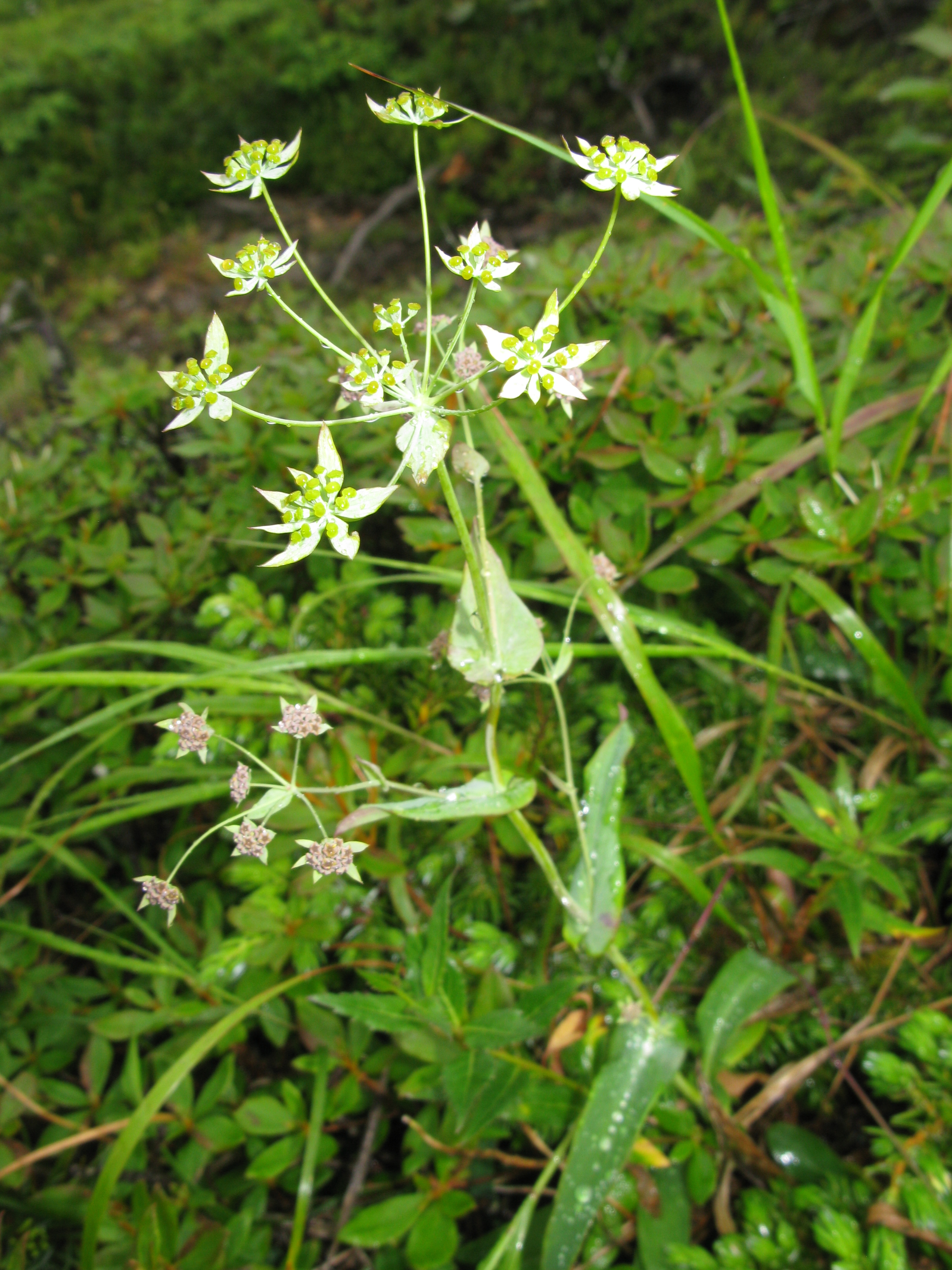 Bupleurum nipponicum, Mount Shibutsu, Gunma pref., Japan